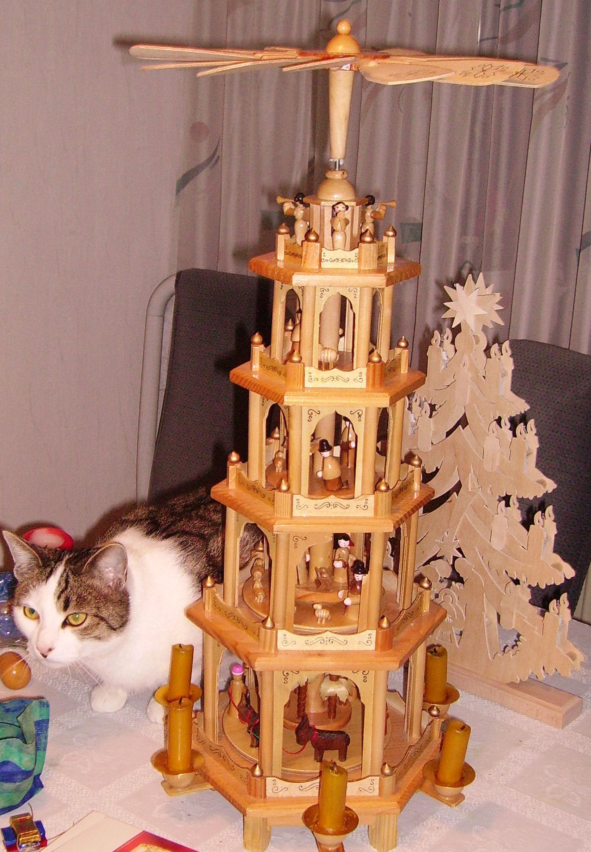 Christmas